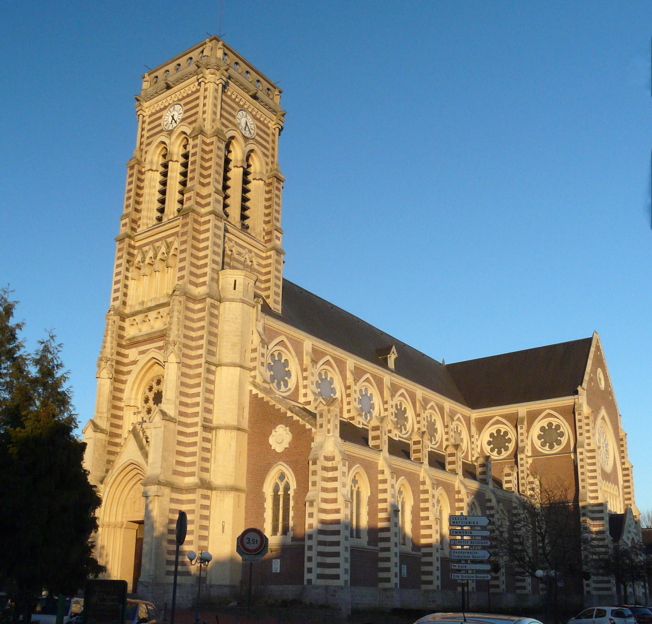 Saint-Maclou church in Haubourdin, Nord department, Nord-Pas-de-Calais region, France.